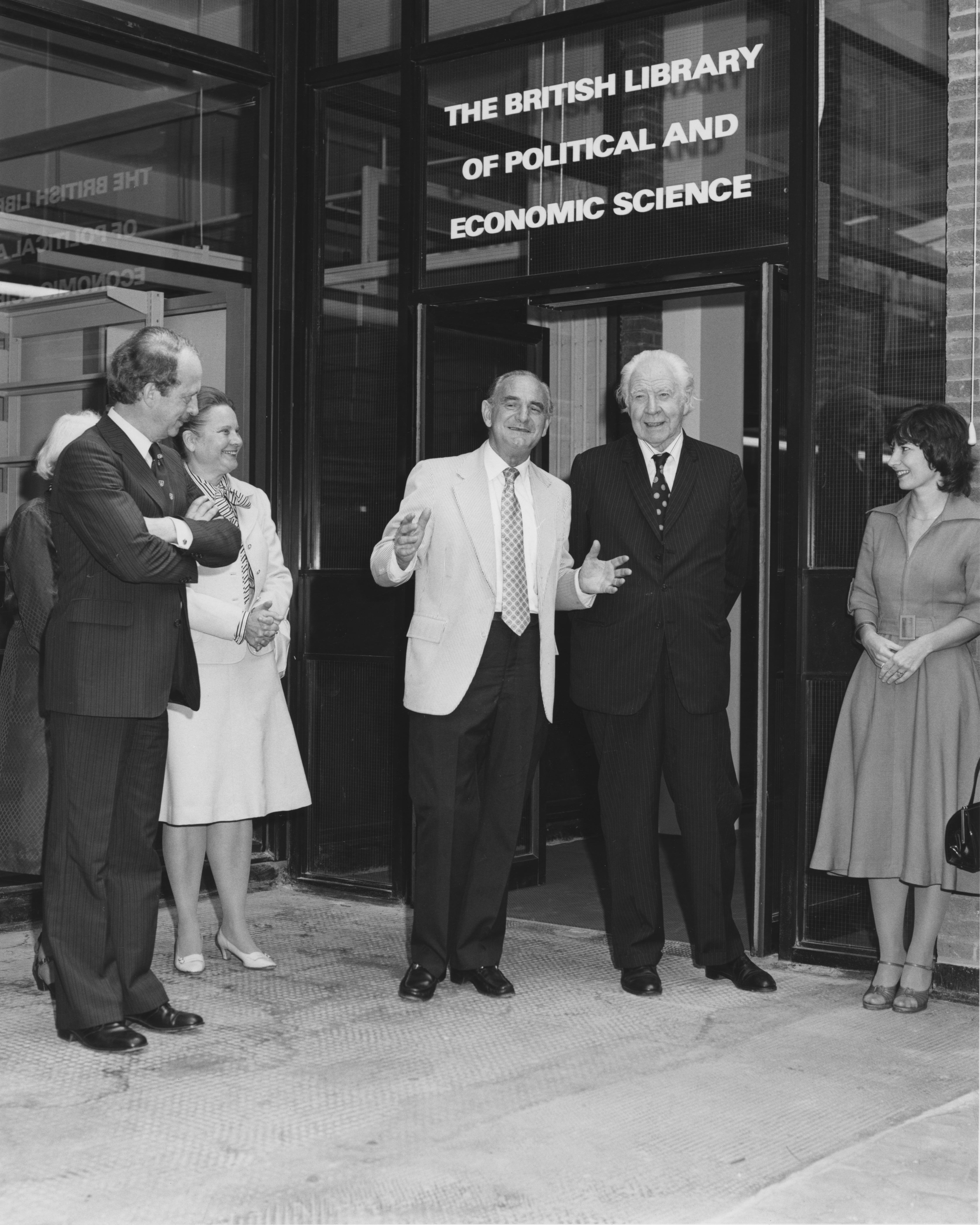 Left to right: Professor Dahrendorf, Professor Charlotte Erickson, Huw Wheldon, Lord Robbins, Ms Elaine Brown IMAGELIBRARY/378 Persistent URL